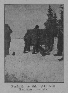 Pori Red Guard artillery in the 1918 Finnish Civil War Battle of Ikaalinen.